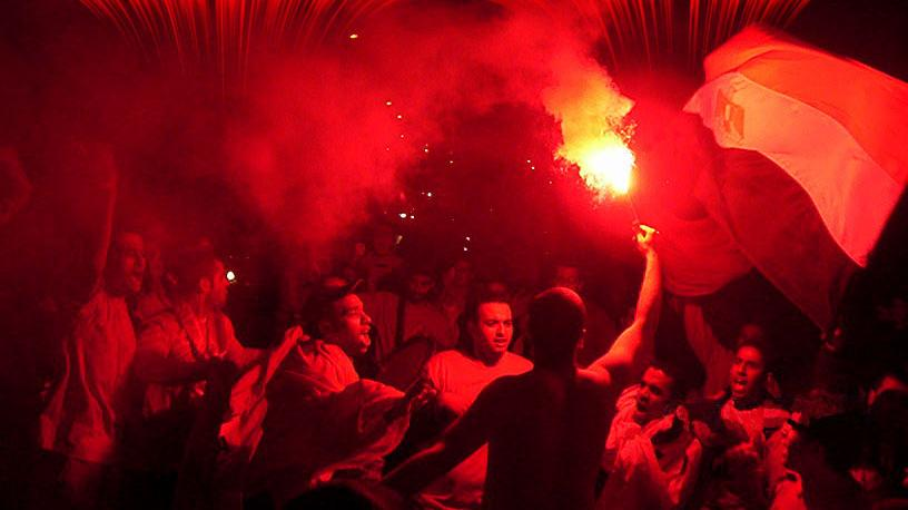 El-Ahly's Fans Celebrating after winning the African champions League 2005 --Msamy 08:23, 31 July 2006 (UTC)